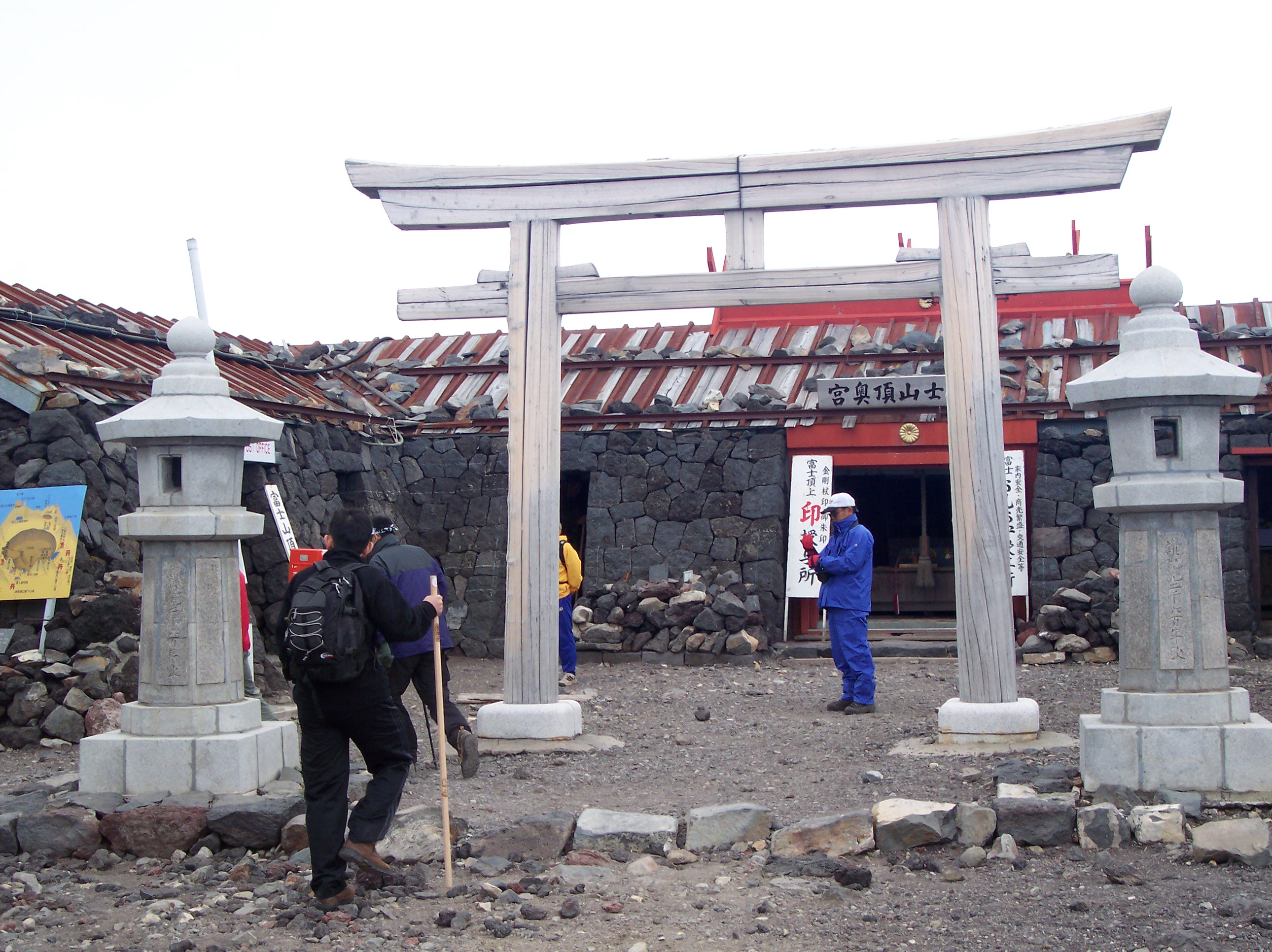 Finally, at the summit of Mt. Fuji. I think this was the entrance to the shrine at the top.